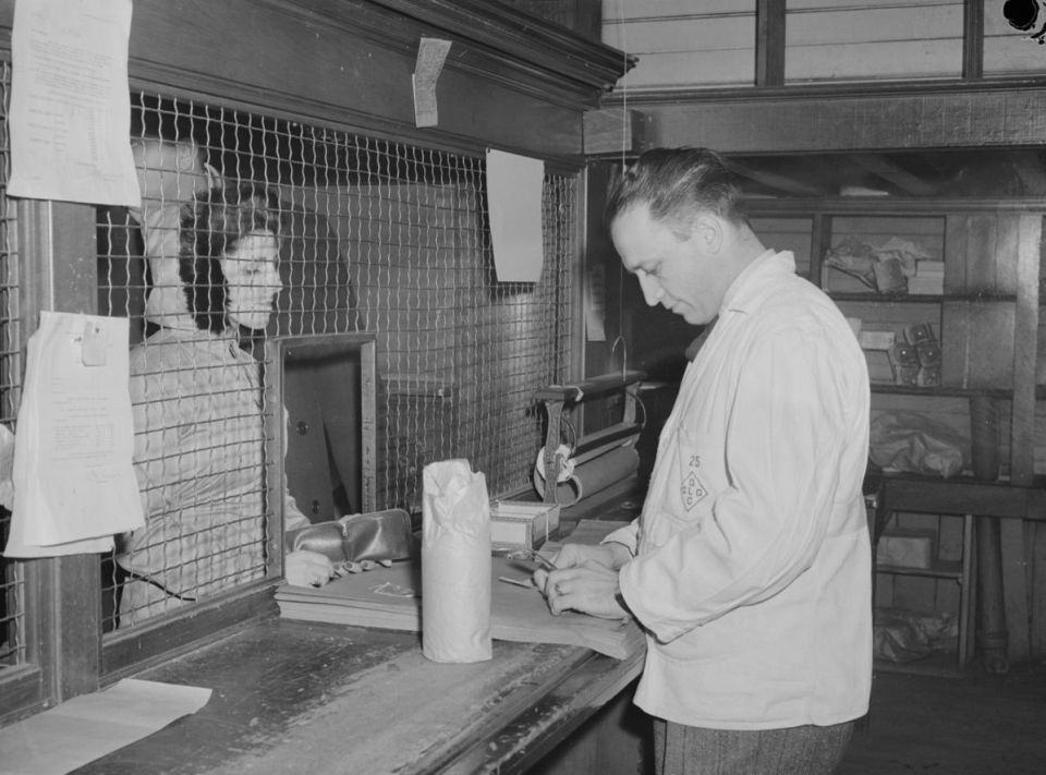 Roland Gladu, an employee of a branch of the Commission of liquors of Quebec Montreal serves a client who is behind the fence of the counter. Employees around the bottles of paper.